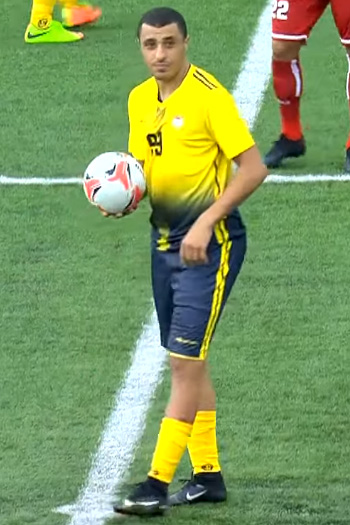 Ahmed Akaichi with Ahed against Akhaa Ahli Aley during the 2019-20 Lebanese Premier League season